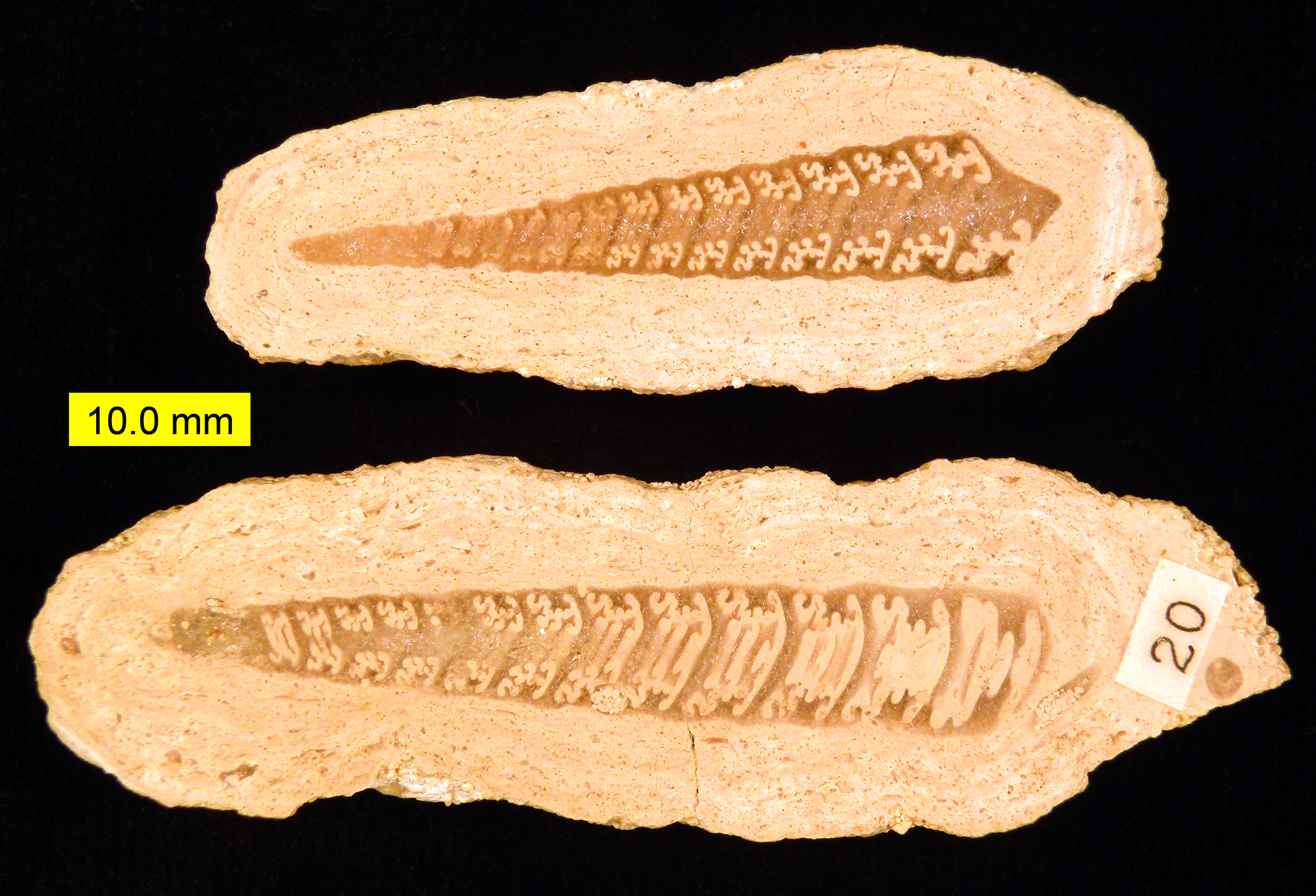 Bactroptyxis trachaea, Aubry-en-Exmes, Orne, Normandy, France; Middle Jurassic (Bathonian).